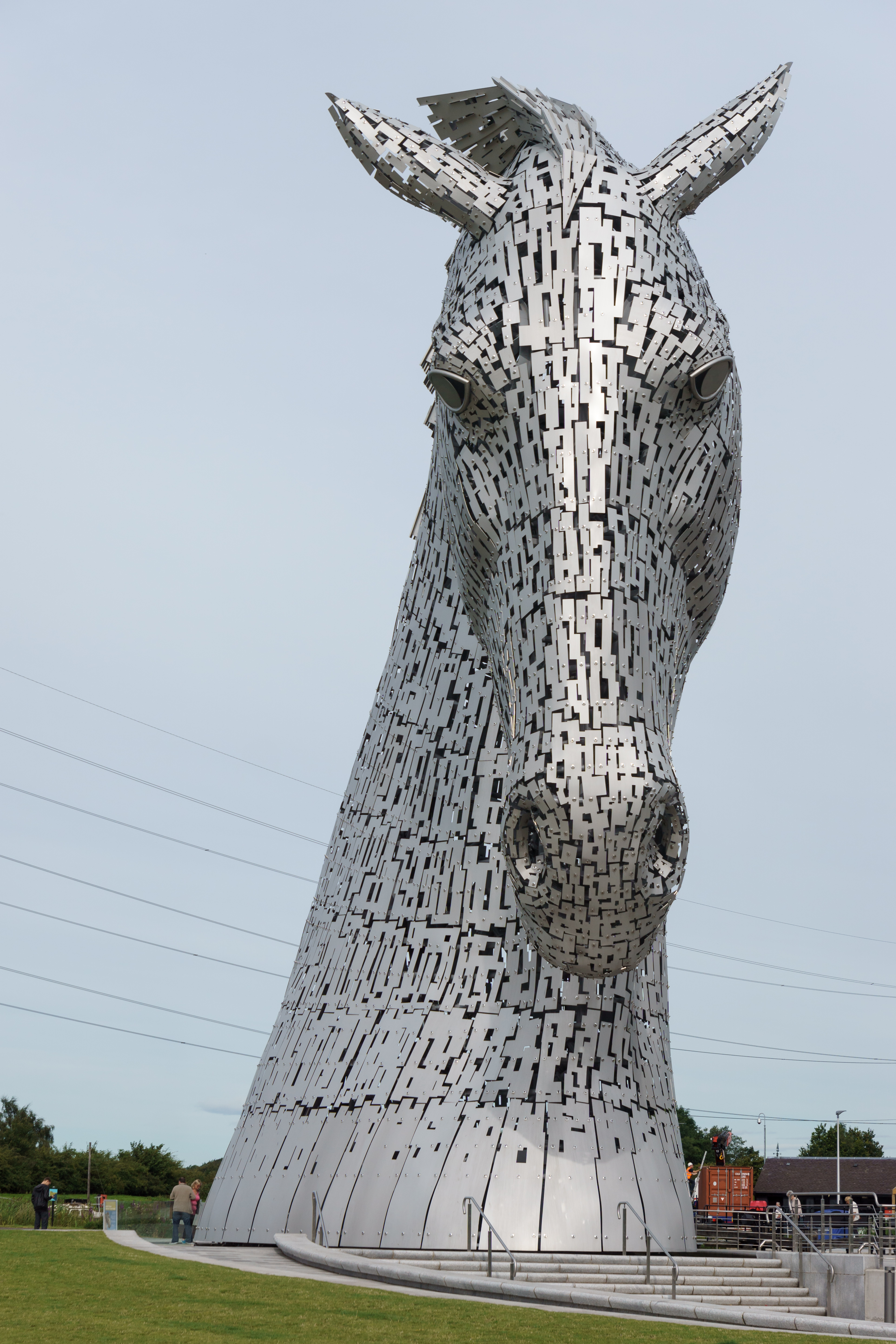 One of "The Kelpies" from the front.